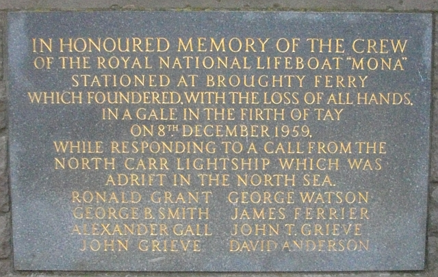 Mona Memorial, Broughty Ferry Lifeboat Station During her 24 years on station, the Mona had saved more lives than her six predecessors. Like her ill-fated uncompleted journey, her first operation was to aid a lightship. In January 1937, the Mona was launched after the Abertay was swept from her moorings off the Gaa bank into mid-channel. Within two weeks of the 1959 disaster, a volunteer crew was in place with a replacement boat.